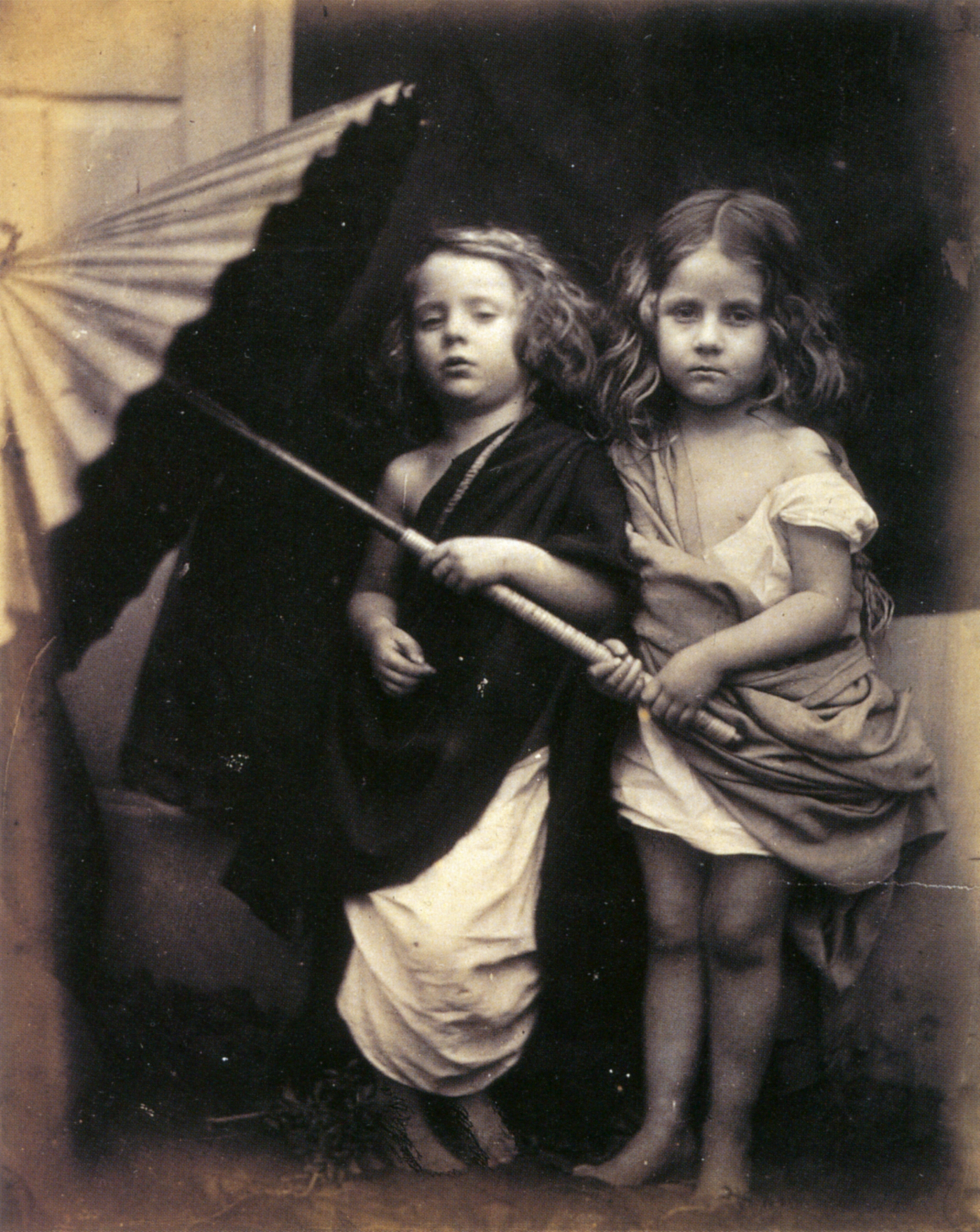 Paul and Virginia. Models are Freddy Gould and Elizabeth Keown. Albumen print, 270 x 214mm (10 5/8 x 8 3/8").